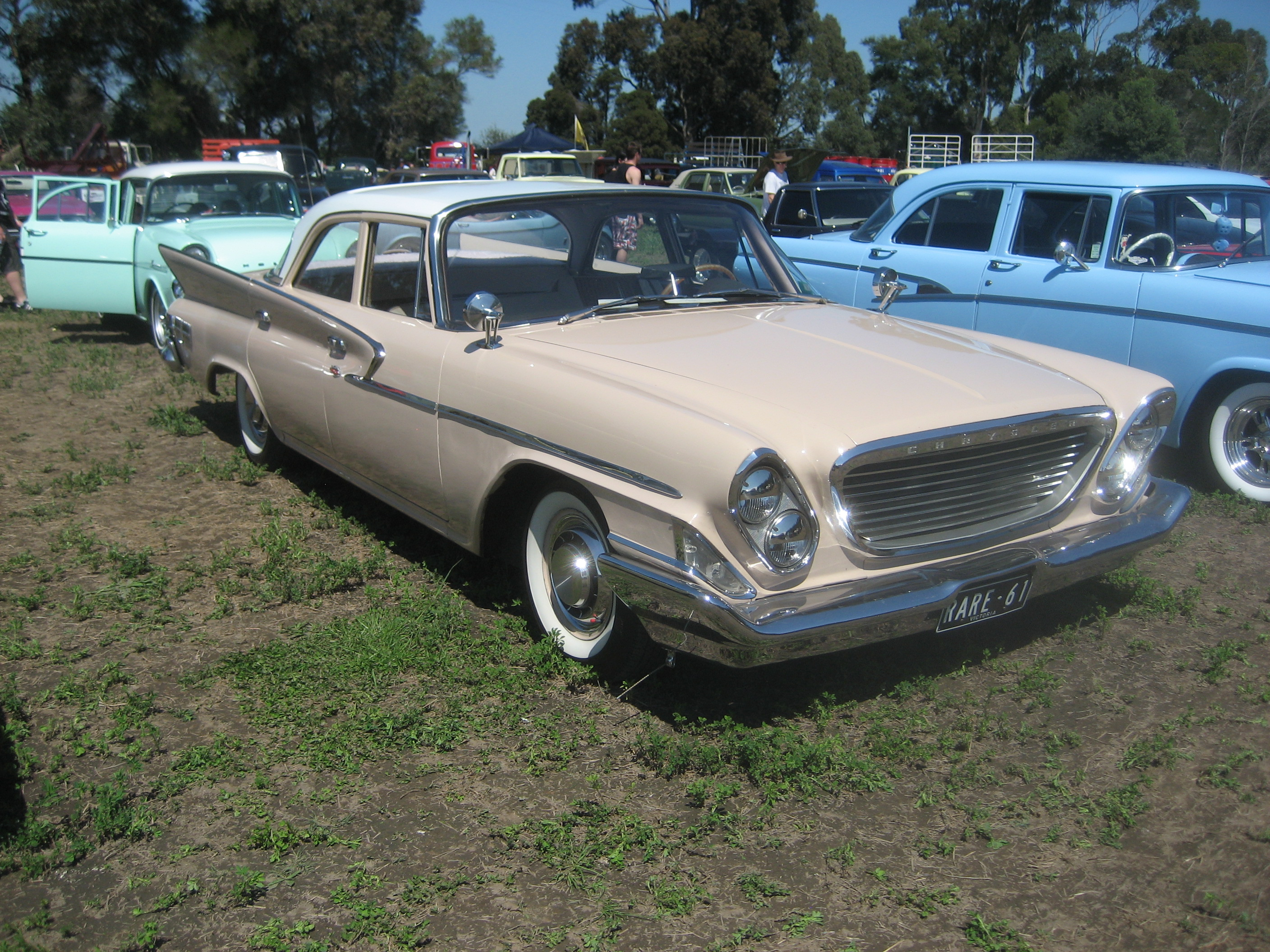 This 3rd generation Newport was the entry level Chrysler built between 1961 and 1964. Available in Sedan, Hardtop, Convertible and Wagon. Engine; 361 cu in V8 with 383 and 413 options